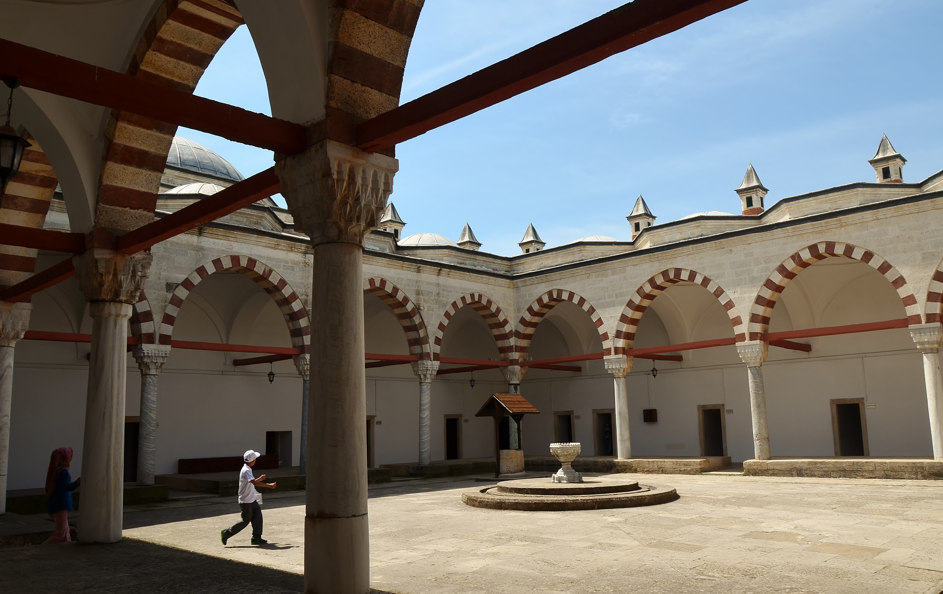 Complex of Sultan Bayezid II Heakth Museum in Edirne, Turkey